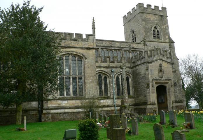 All Saints' parish church, Hillesden, Buckinghamshire, seen from the northeast